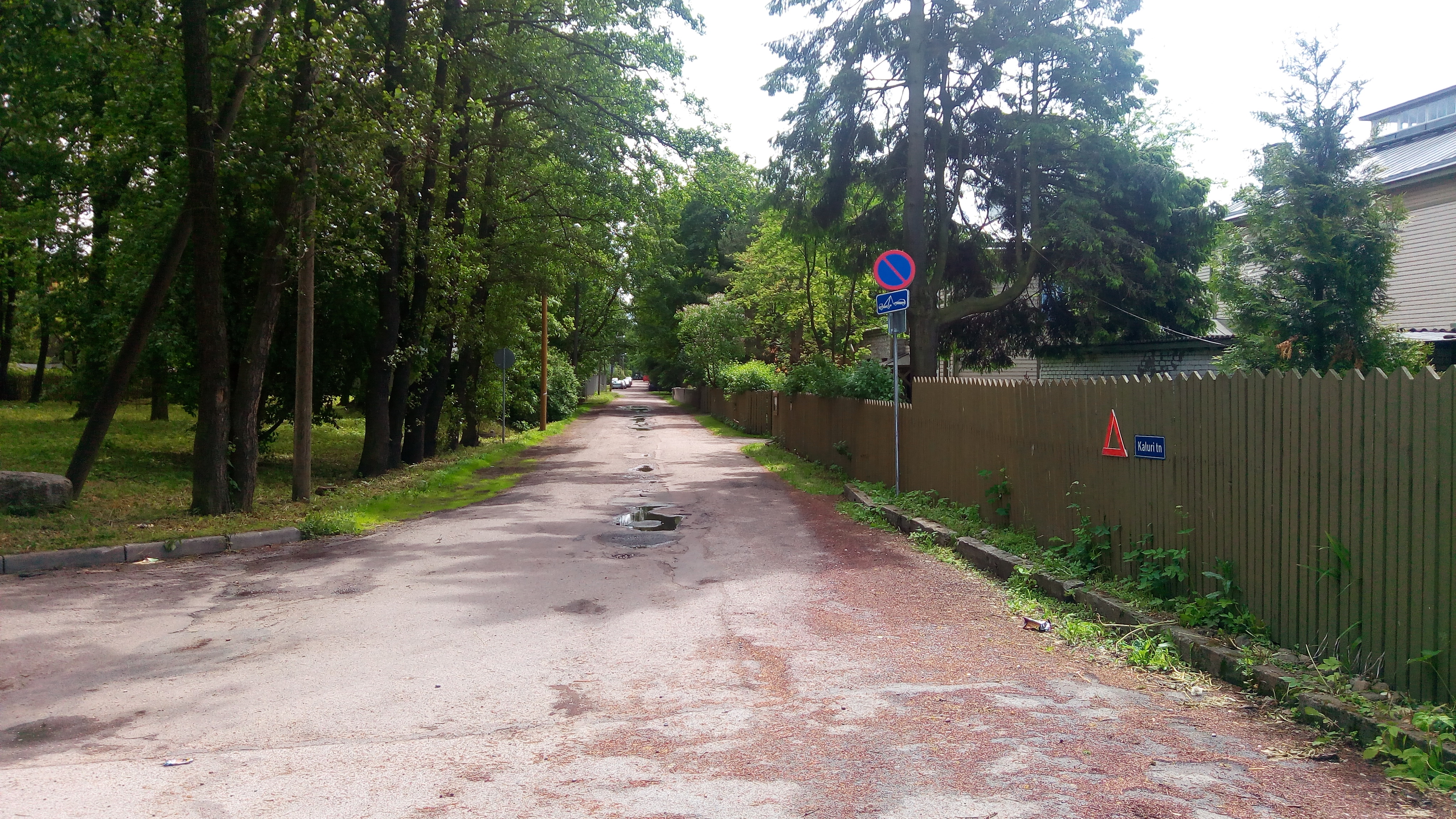 Kaluri steet in Tallinn, Estonia